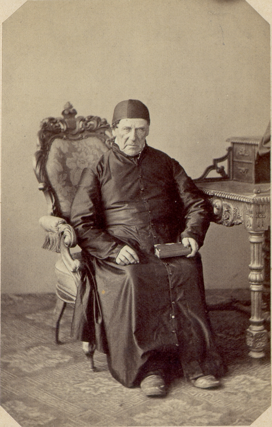 Franc Pirc (1785-1880), a Roman Catholic priest and missionary to the Ottawa and Ojibwa Indians